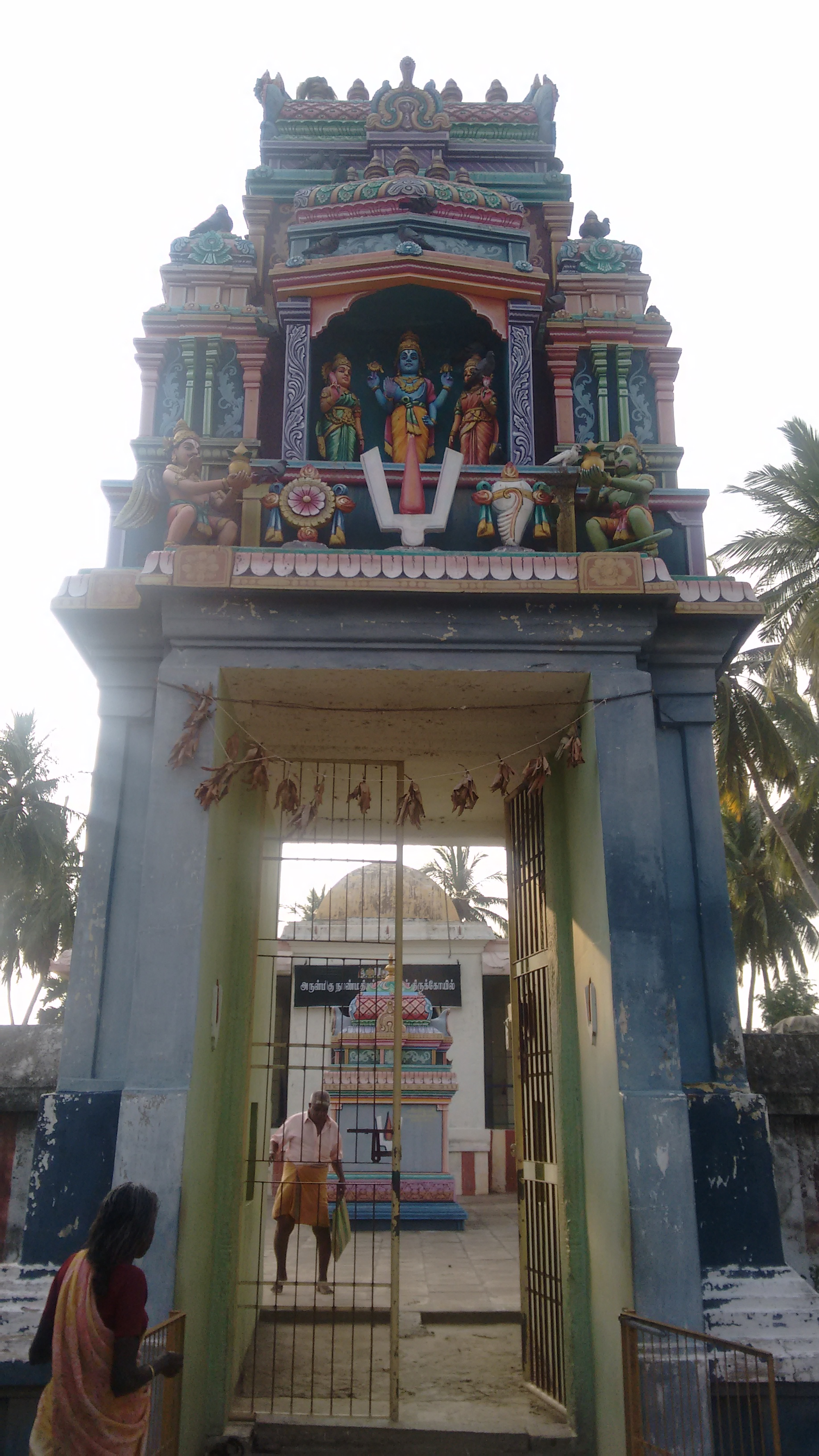 Talaichangadu nanmathiyaperumaltemple1 தலைச்சங்காடு நாண்மதியப்பெருமாள்கோயில்